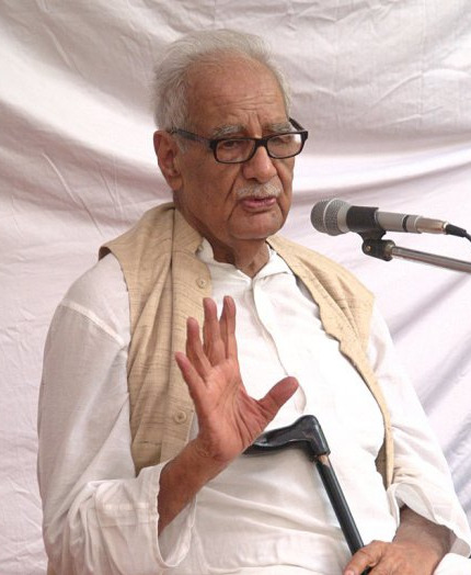 Kuldip Nayar in June 2014